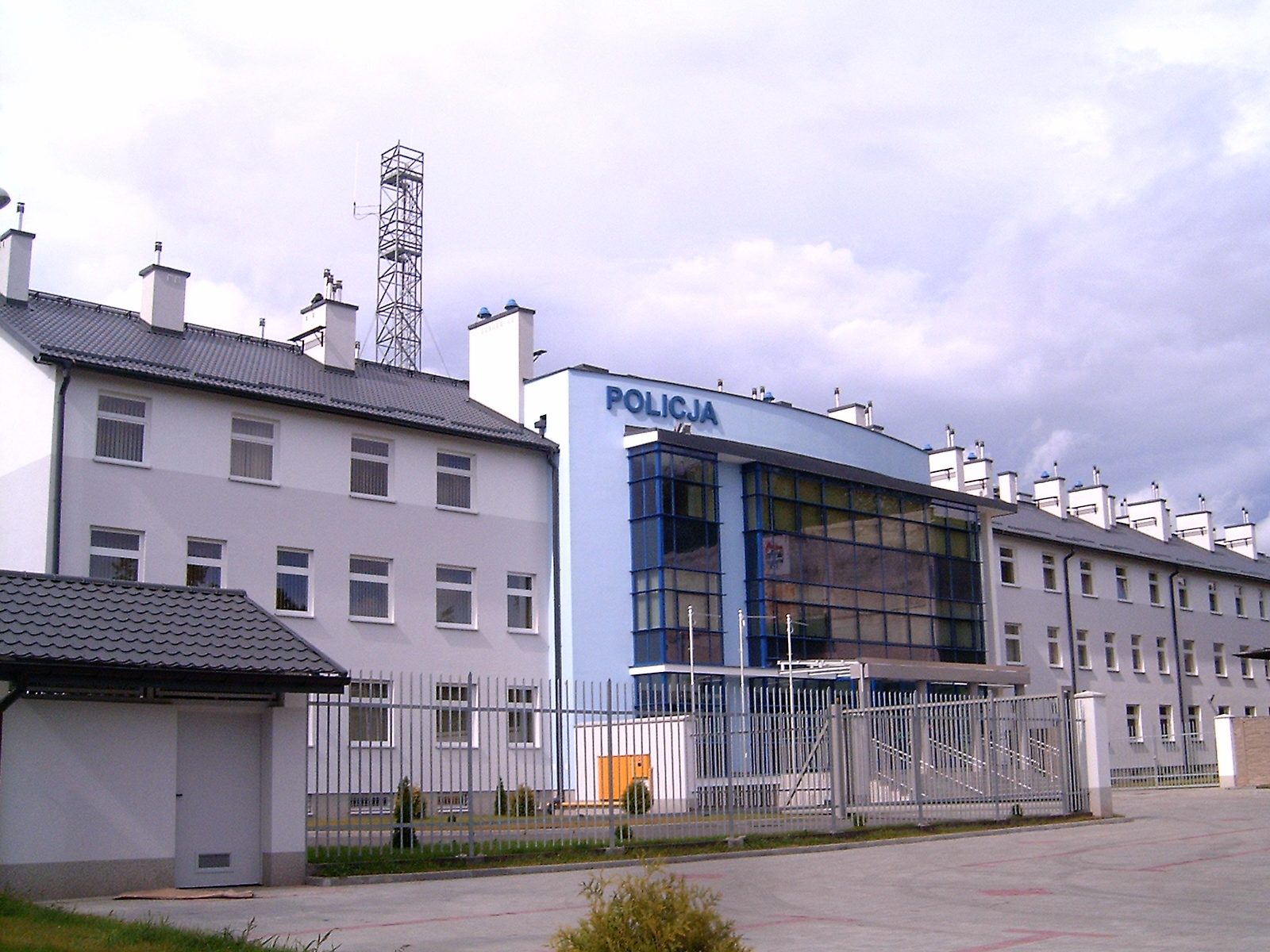 Jaroslaw, Poniatowskiego street, police station.